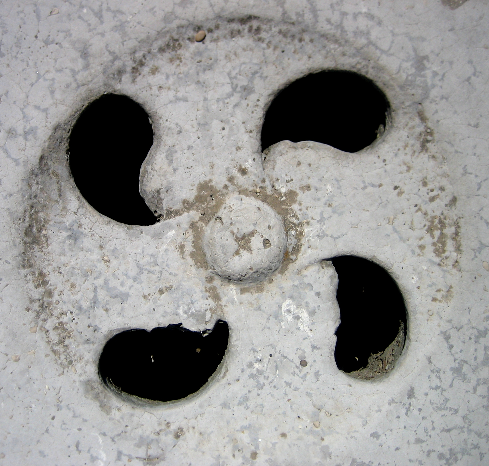 Ancient roman gully hole in Ostia Antica in Italy.